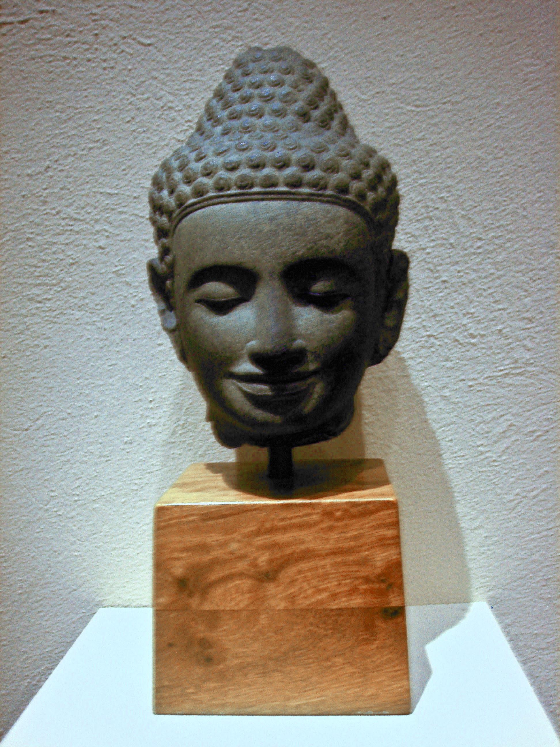 head of Buddha. Sandstone